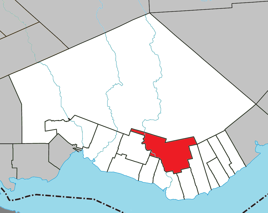 Location of Saint-Elzéar, Quebec within Bonaventure Regional County Municipality.